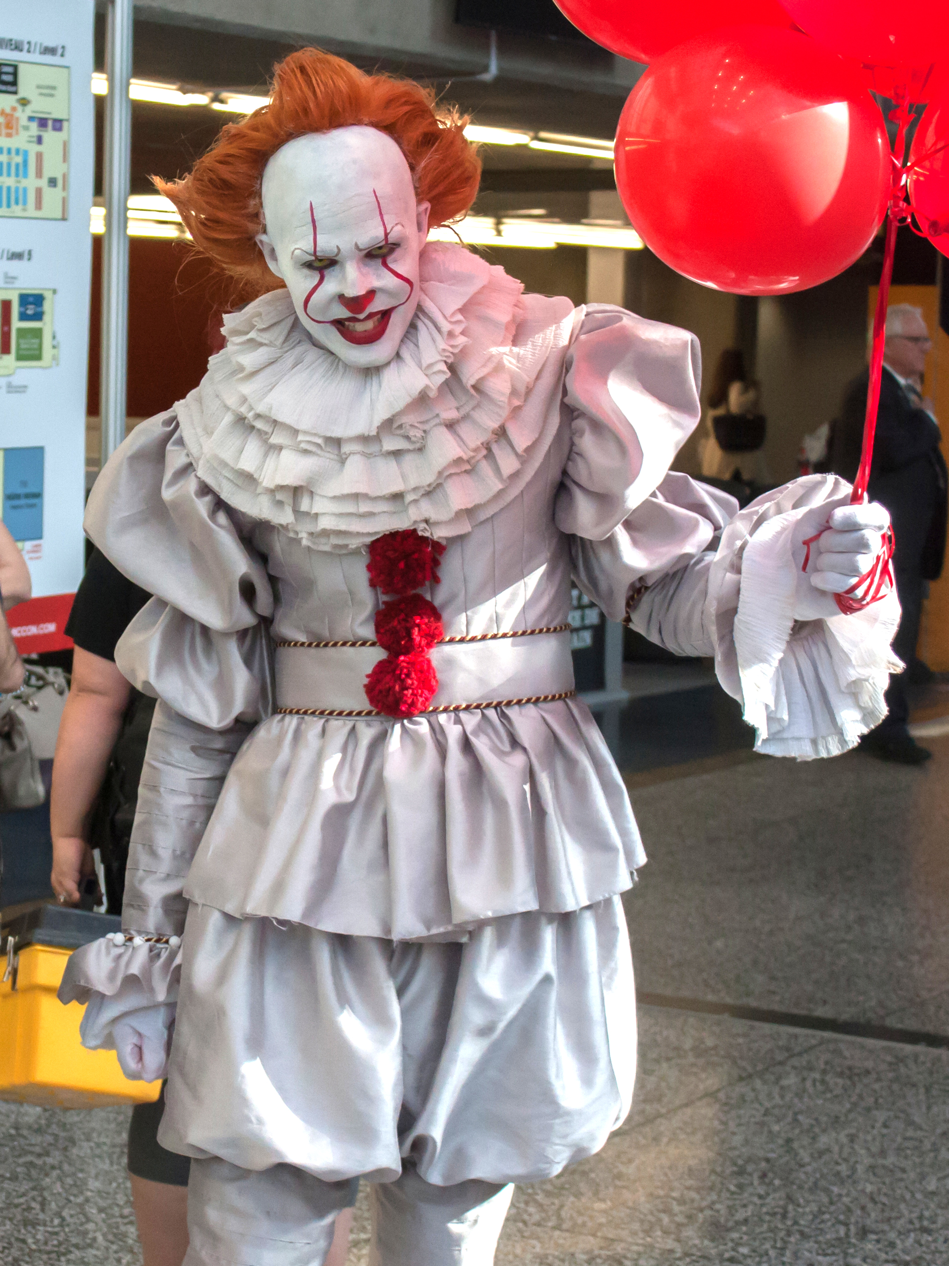 Pennywise cosplay at 2017 Montreal Comiccon.